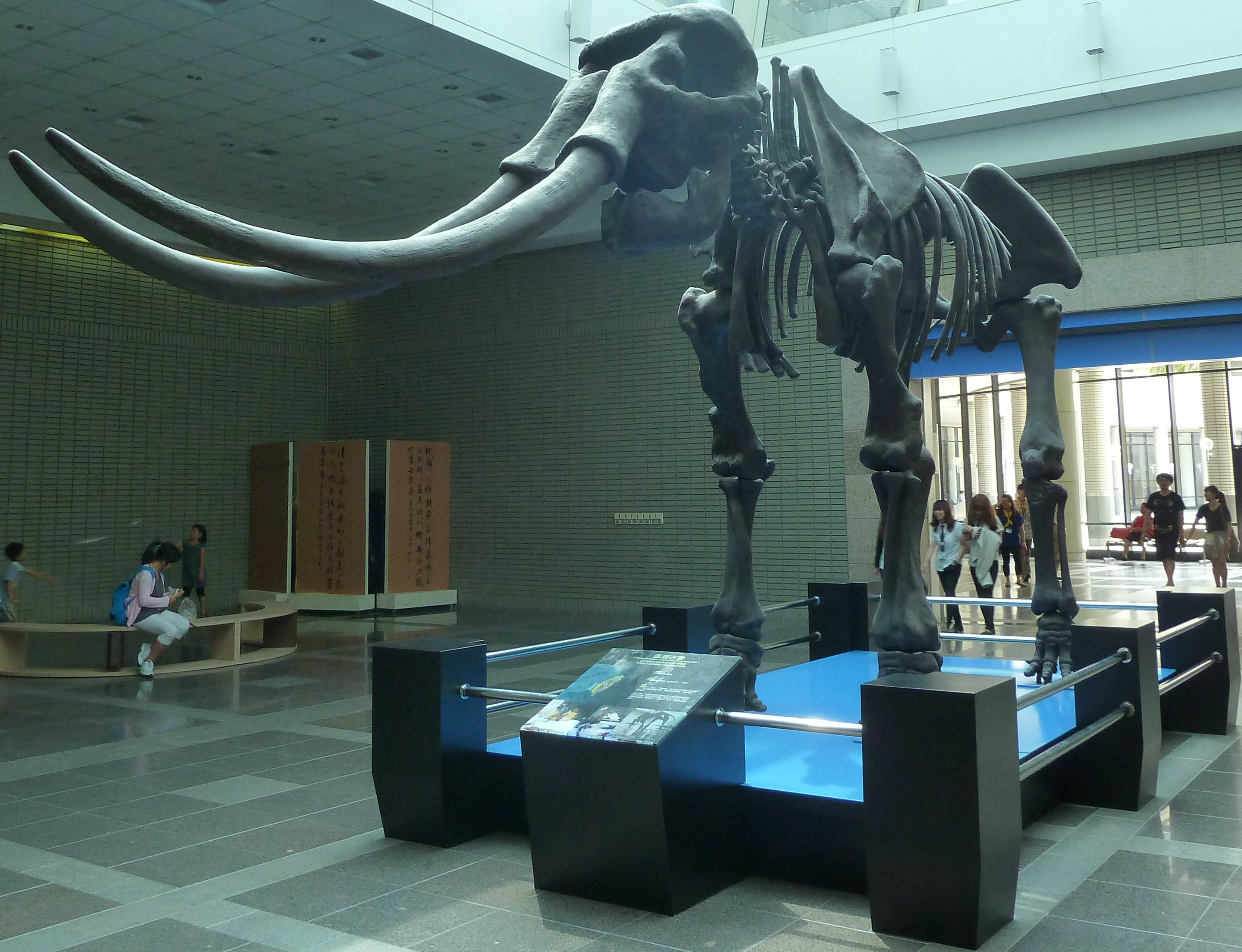 The Palaeoloxodon Skeleton. Show in National Museum Of Nature Science.